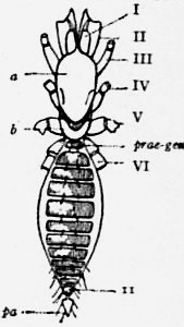 Schizomus crassicaudatus, a Tartarid Pedipalp. Dorsal view of a male with the appendages cut short. I to VI. The prosomatic appendages. a, Anterior plate. b, Posterior plate of the prosomatic carapace. prae-gen, Tergum of the prae-genital somite. 11, The eleventh somite of the opisthosoma. pa, Post-anal lobe of the male—a conical body with narrow basal stalk.(Original drawing by Pickard—Cambridge, directed by Pocock.)